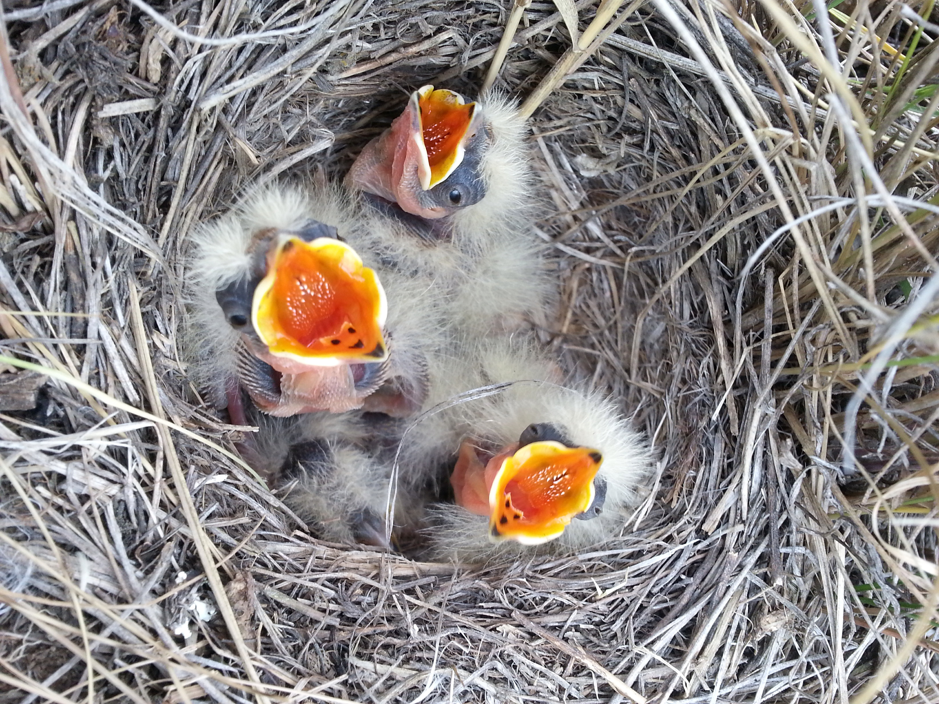 Horned Lark, Eremophila alpestris, nestlings begging, baby birds in nest, with distinct gape coloration and patterns. Horned Larks nest in open nests on the ground. NOTE: This nest was photographed as part of a nest monitoring project in the oil fields of Alberta, Canada by a professional trained in viewing sensitive nests and minimizing the disturbance to the birds and the surrounding vegetation. Photographing nests simply to "snap a cute pic" can expose them to predators and disrupt the feeding and care of nestlings!